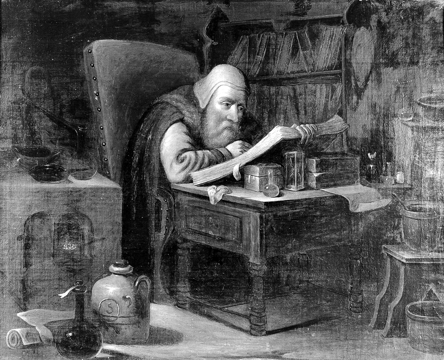 A philosopher reading. Oil painting. Iconographic Collections Keywords: alchemists